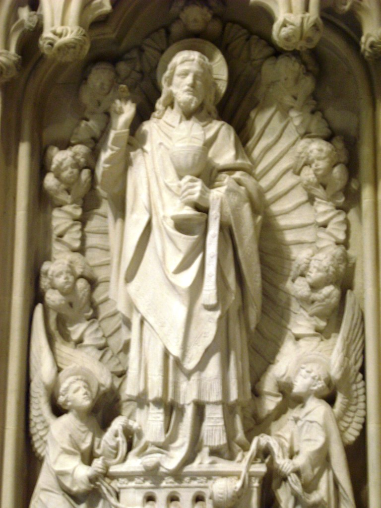 One of Nathaniel Hitch's carvings on the reredos in Woodham Parish Church in Surrey